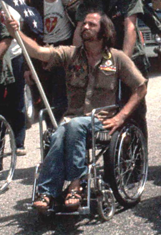 Ron Kovic and Vietnam Veteran protestors at the 1972 Republican National Convention - Miami, Florida.